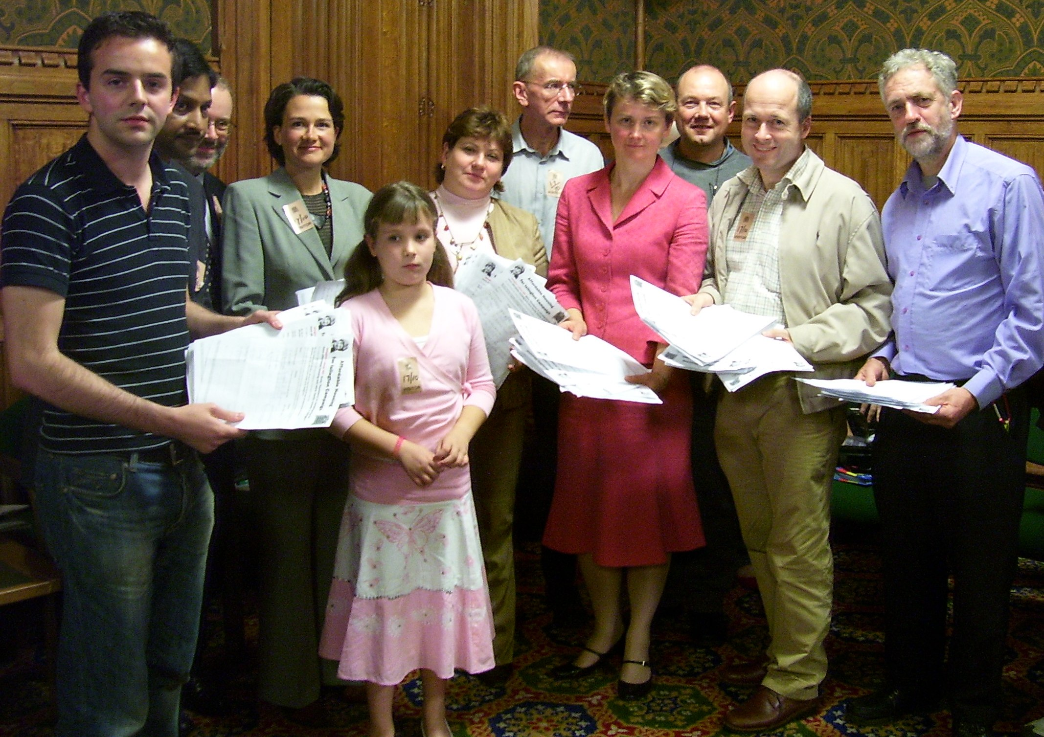 Emily Thornberry (6th from right), Jeremy Corbyn (right) and local councillors present Yvette Cooper with a petition from Islington residents for more affordable housing